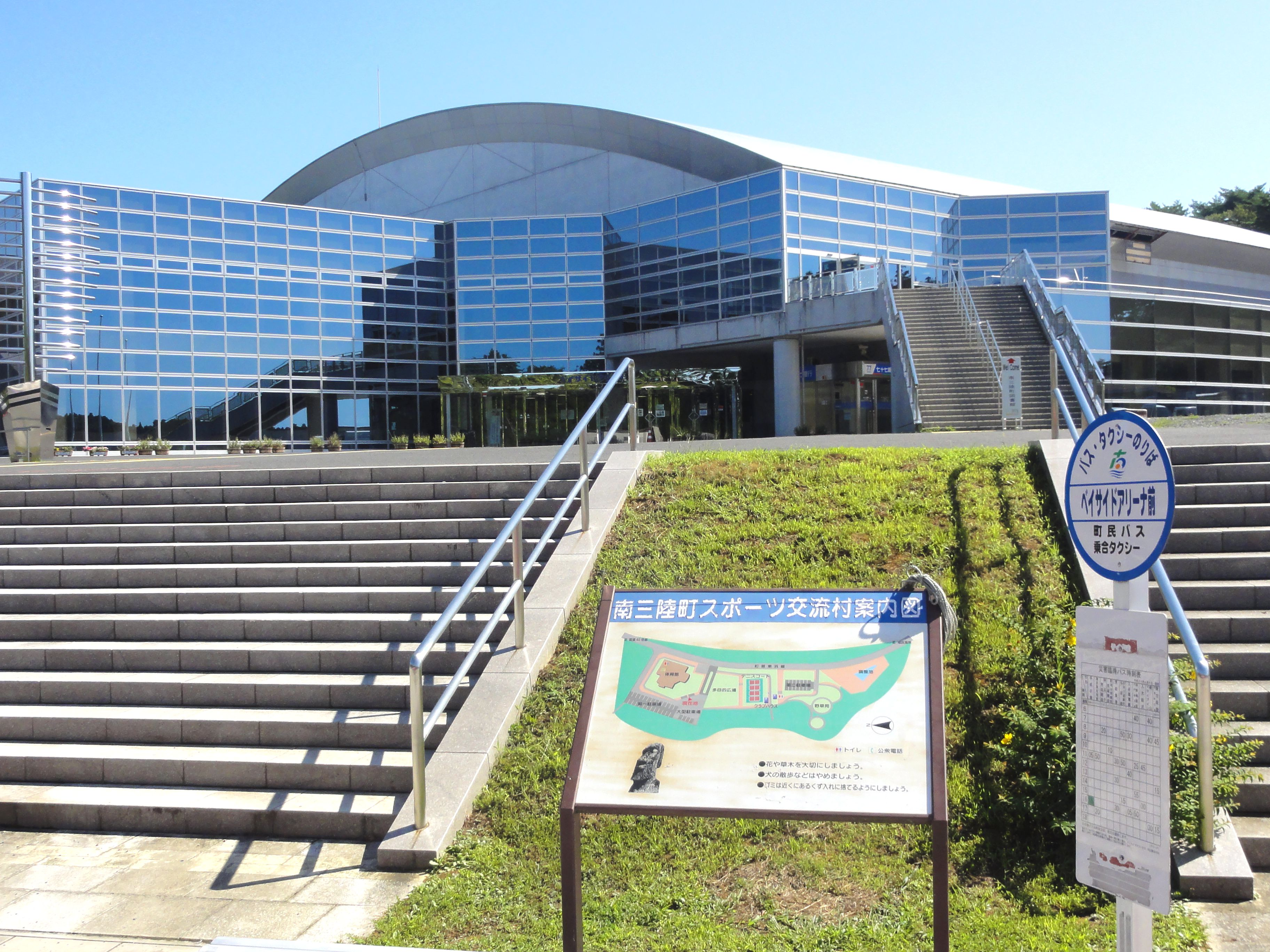 Minamisanriku Town General Gymnasium Bayside Arena